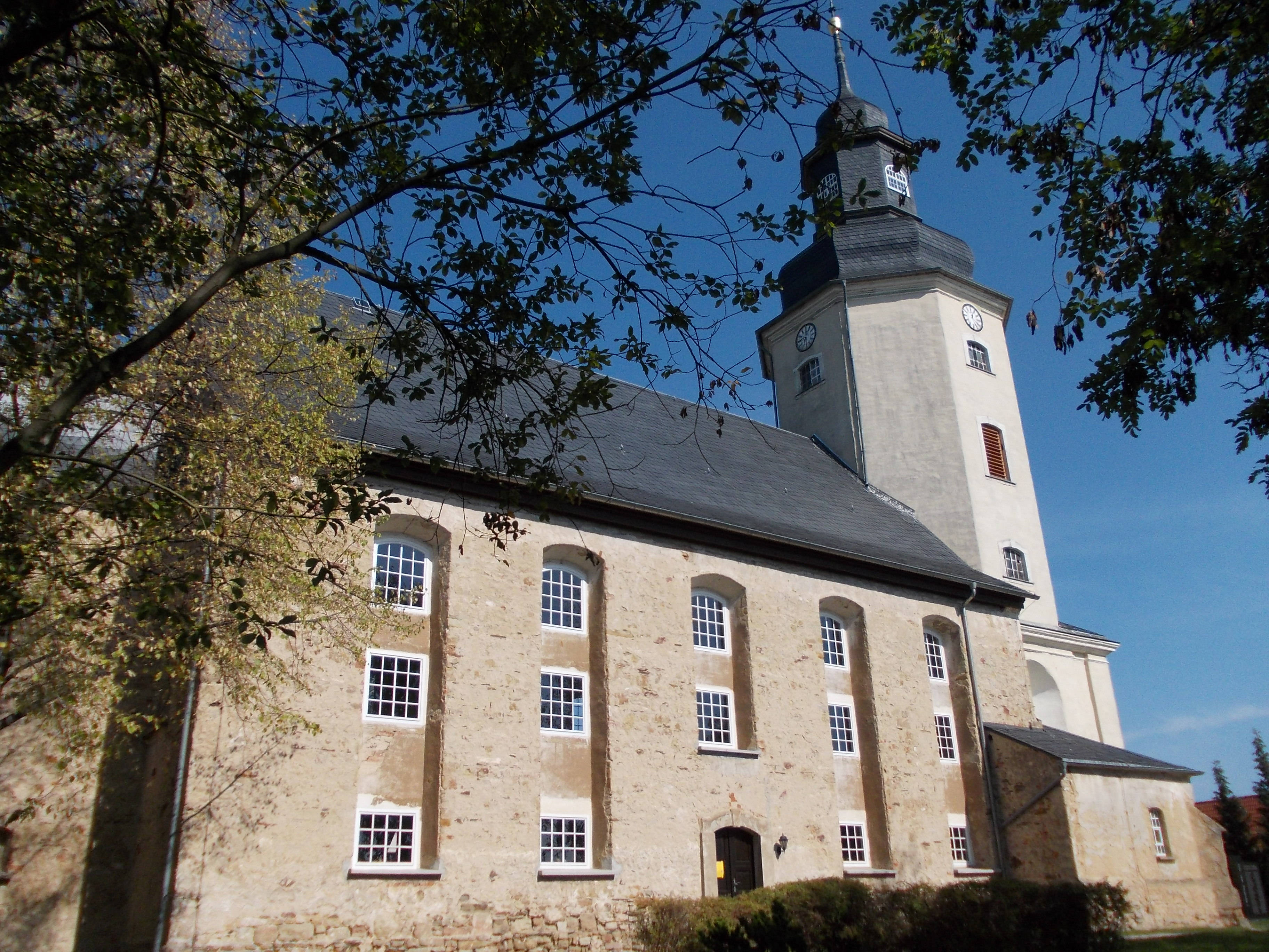 Grossenstein church (Greiz district, Thuringia)